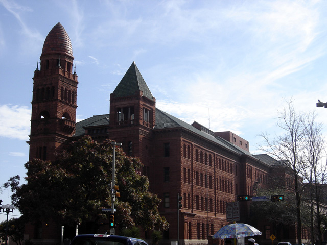 I am the photographer Category:Images of San Antonio Category:Romanesque Revival architecture Summary I am the photographer